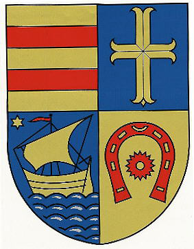 Coat of arms of the town of Elsfleth